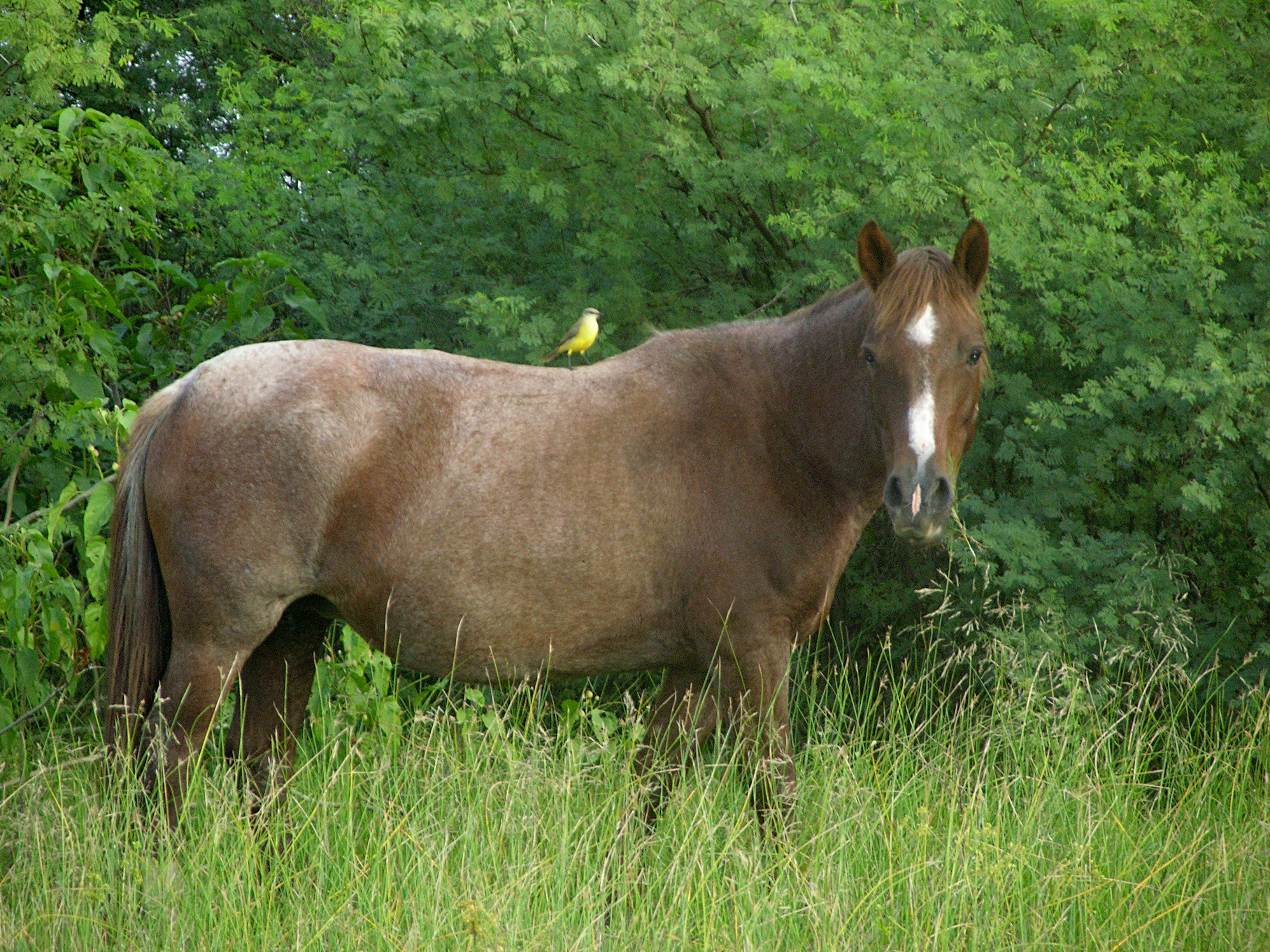 Cattle Tyrant (Machetornis rixosa) on horse, where it is likely feeding on parasites (Asuncion Bay, Paraguay)